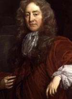 Sir Josiah Child, 1st Baronet, governor of the East India Company